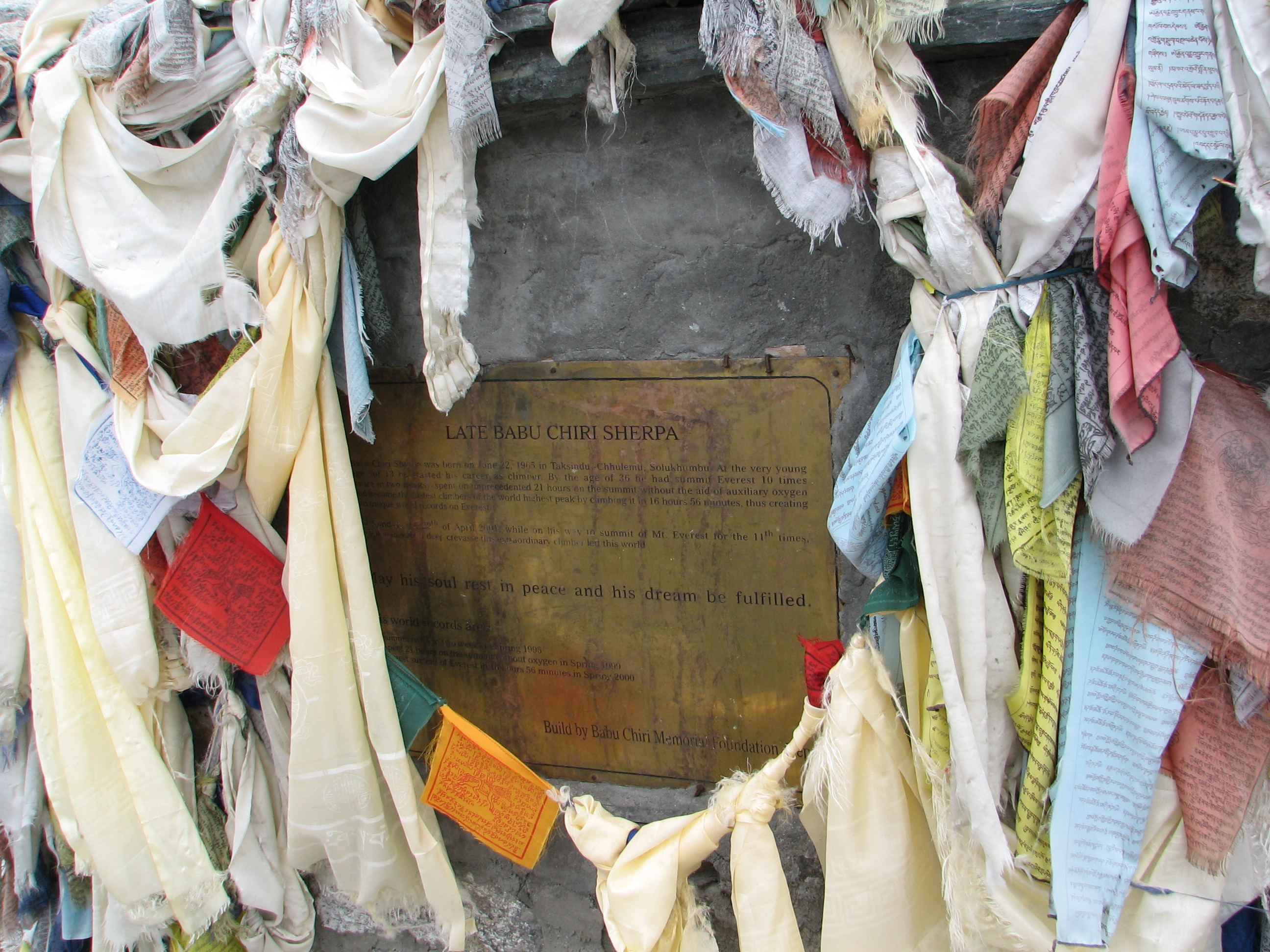 I took this picture on my trek to Mount Everest base camp, on May 2006. Ilan Adler.